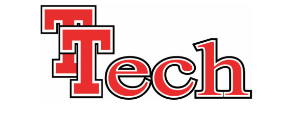 TTech